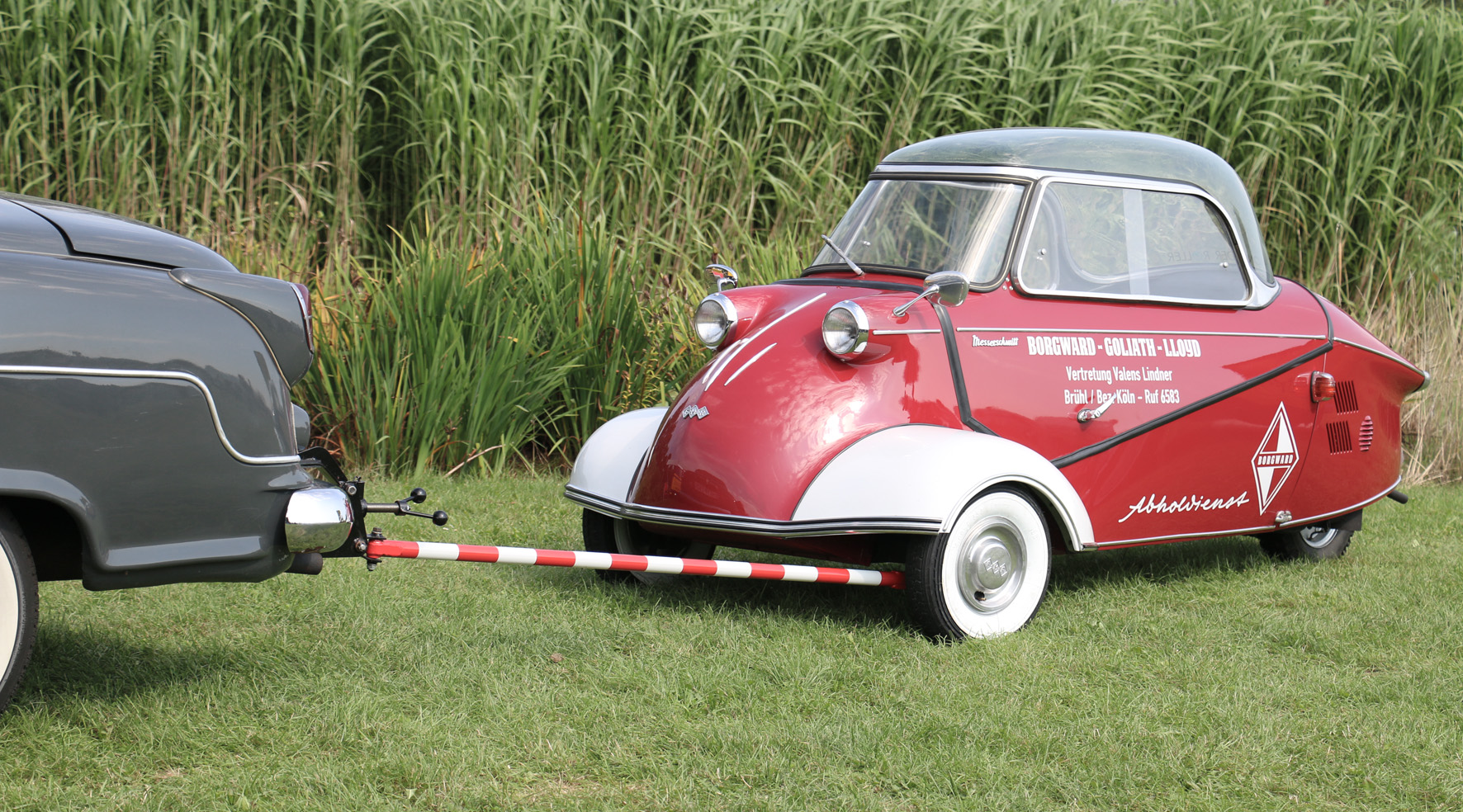 only known original survivor of the Messerschmitt Service Car